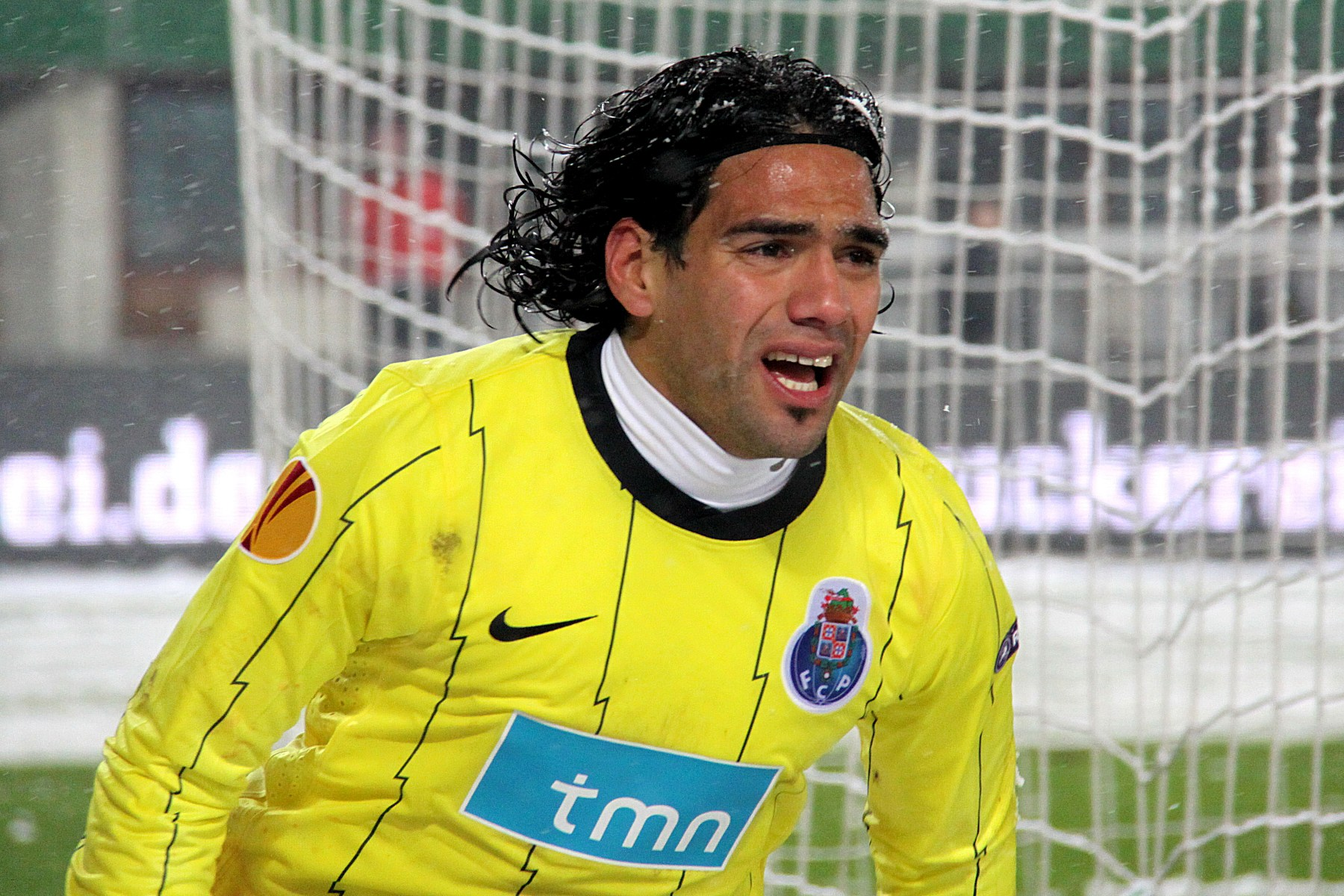 2010–11 UEFA Europa League - SK Rapid Wien vs. F.C. Porto 1:3 Ernst-Happel-Stadion (Vienna) – Radamel Falcao is jubilant. He scored all three goals for F.C. Porto.